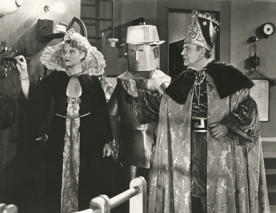 Dorothy Christy & Charles K. French (right) in The Phantom Empire - publicity still (cropped)